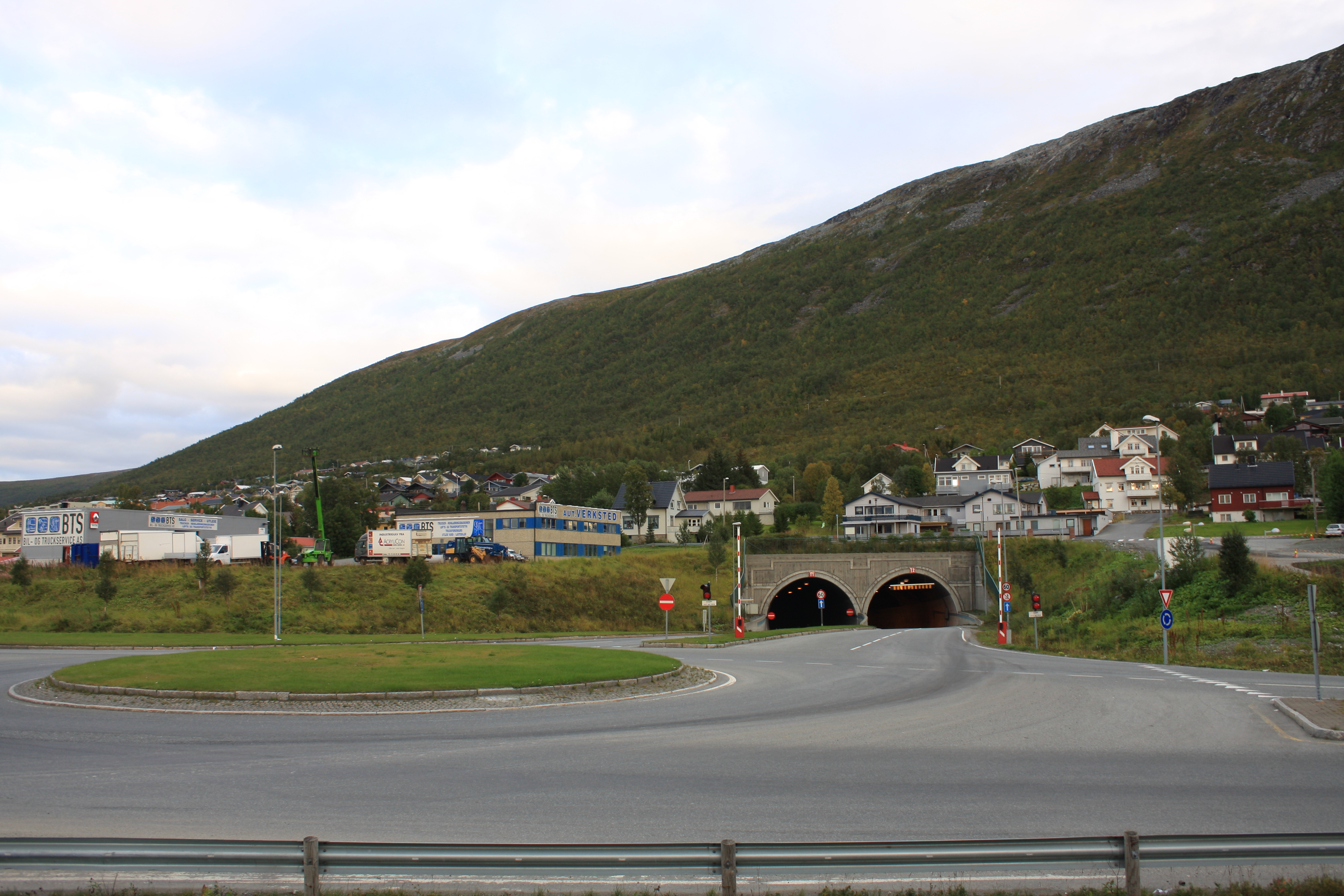 Tromsøysundtunnelen (Undersea tunnel) on the european route E8 in Tromsø, Norway. The photo is of the entrance on the mainland side.